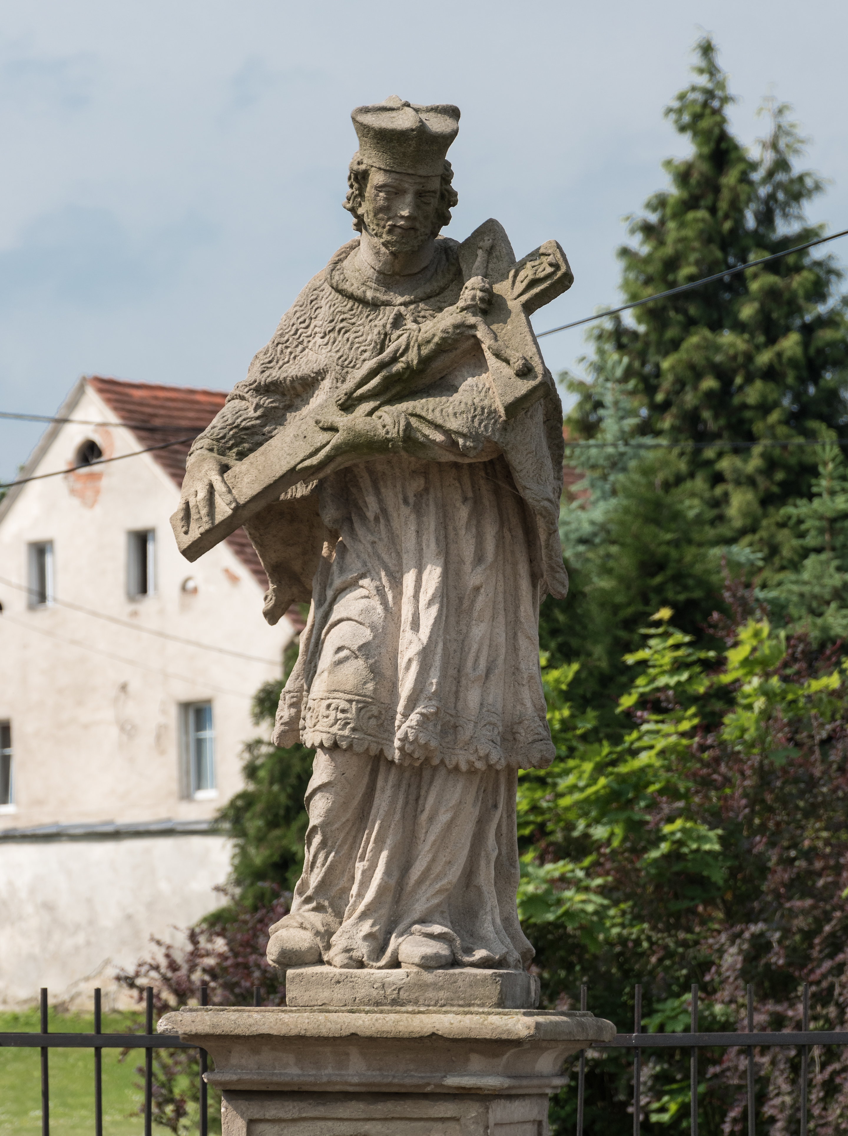 John of Nepomuk statue in Wilkanów